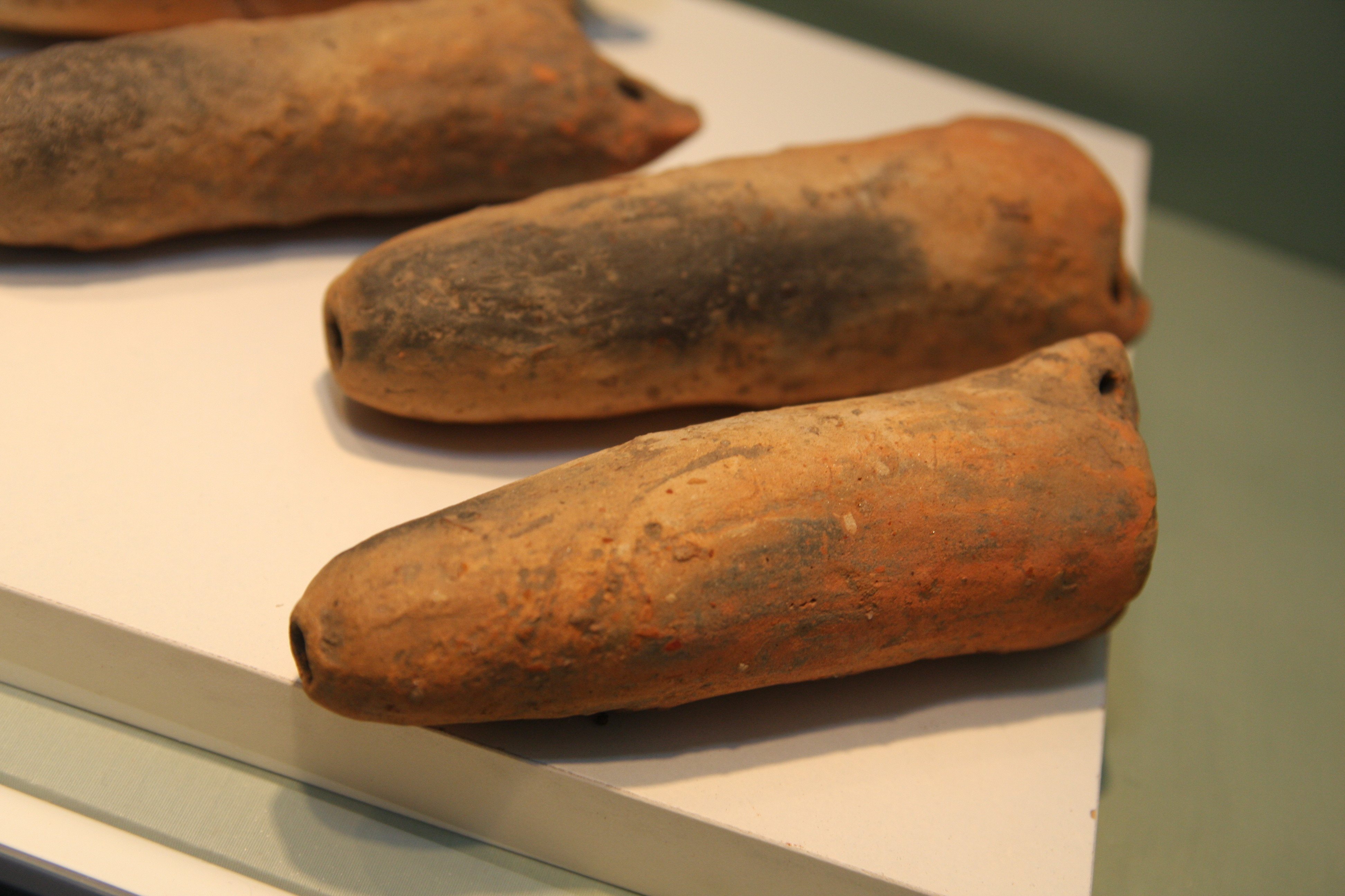 Cucuteni Primitive Kazoo 3000BC